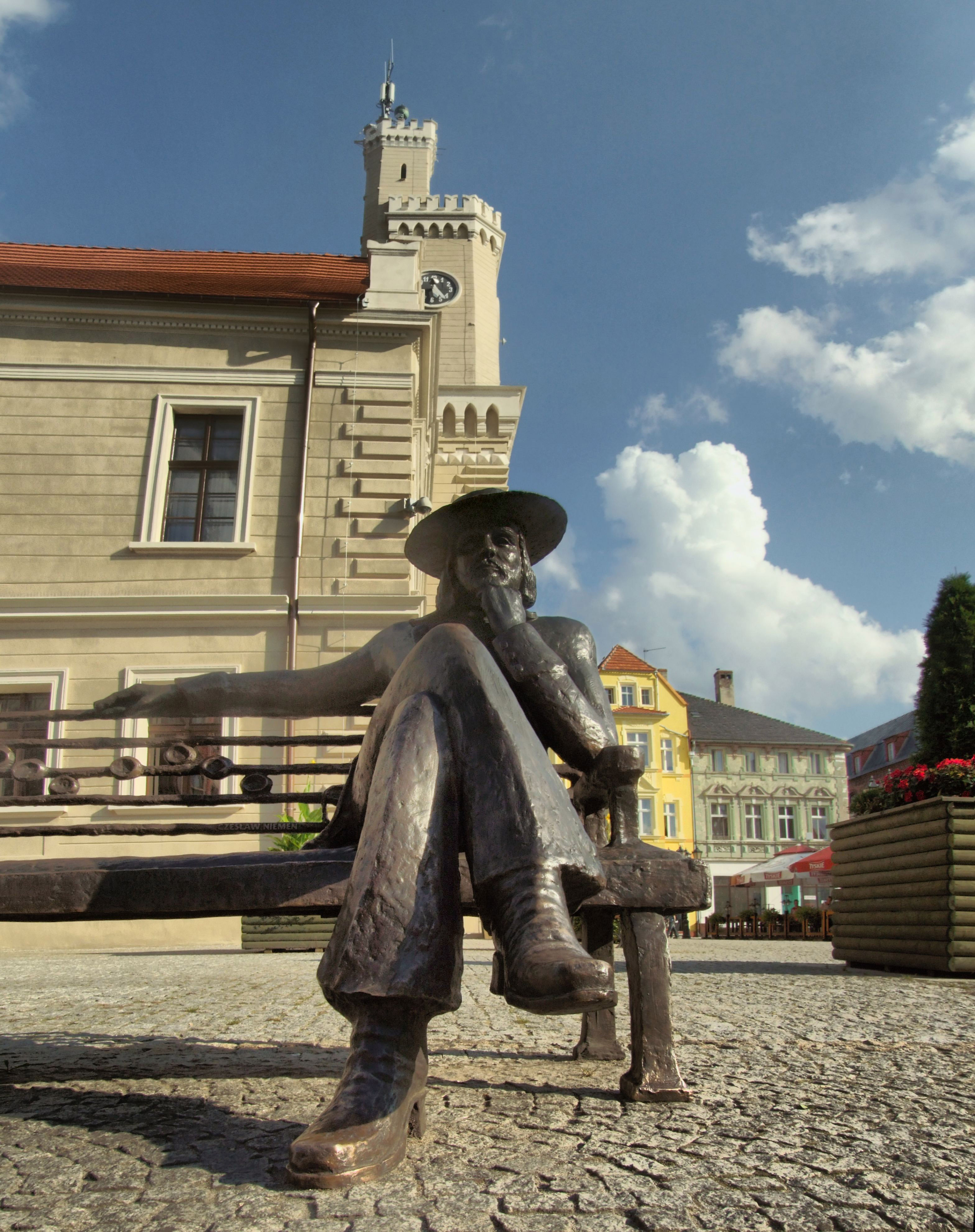 a statue of Czesław Niemen in Świebodzin, western Poland